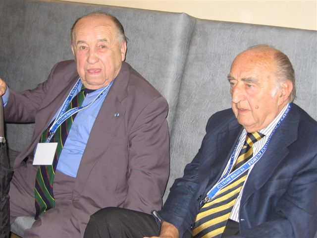 Bohdan Osadchuk (1920-2011), Ukraininian journalist and Leopold Unger (1922-2011), Polish journalist